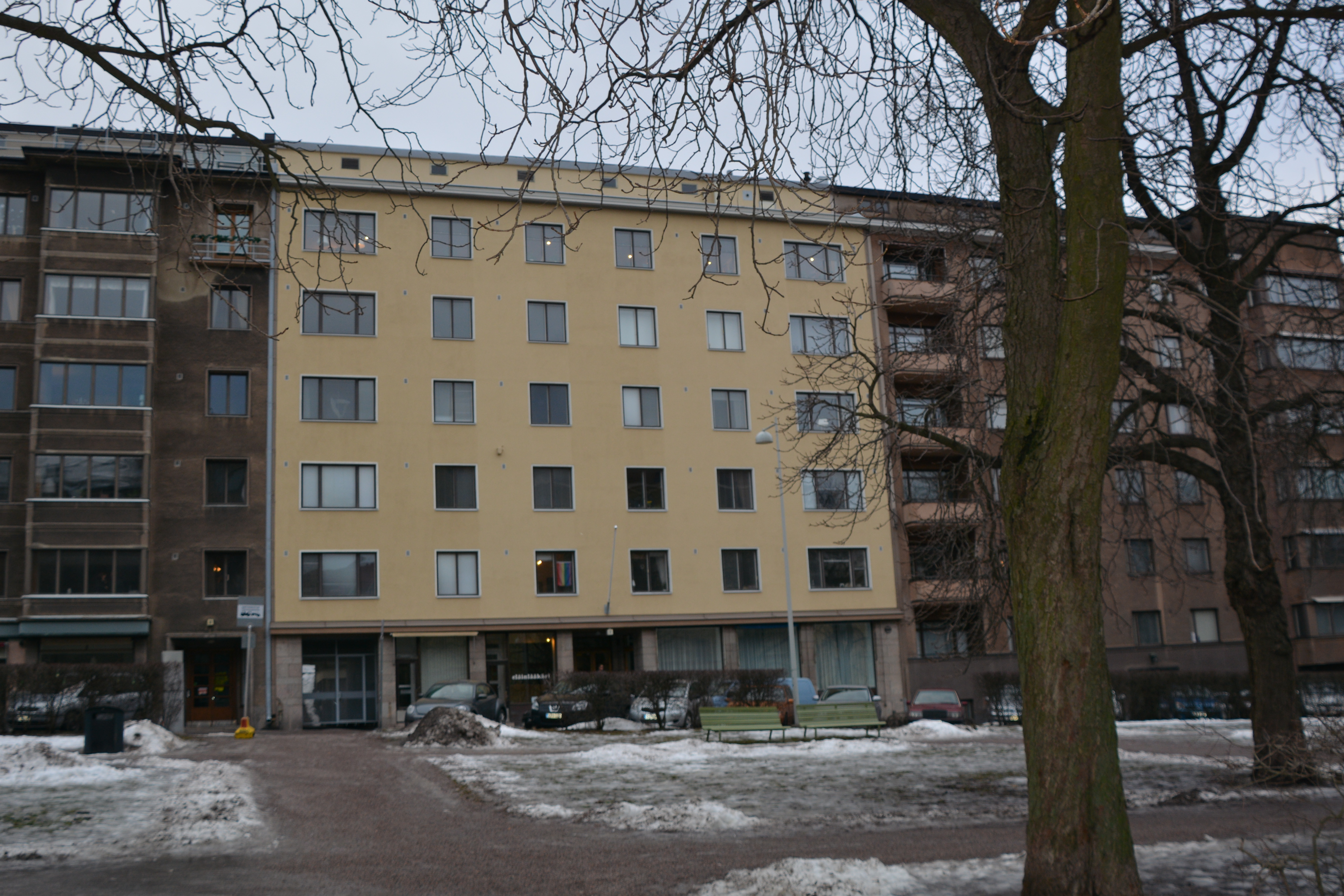 Norra Hesperiagatan 7 Helsingfors